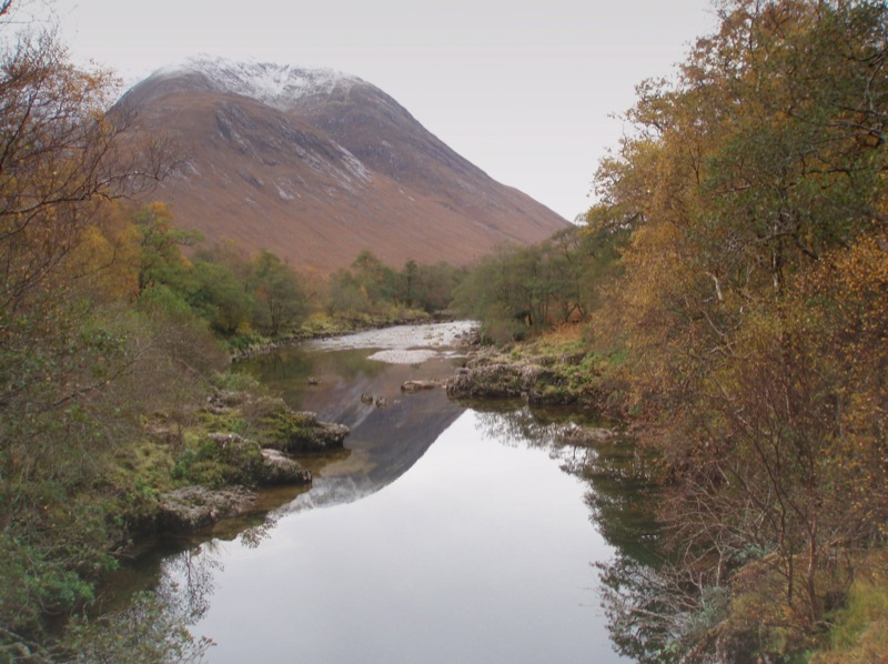 River Etive and Ben Starav